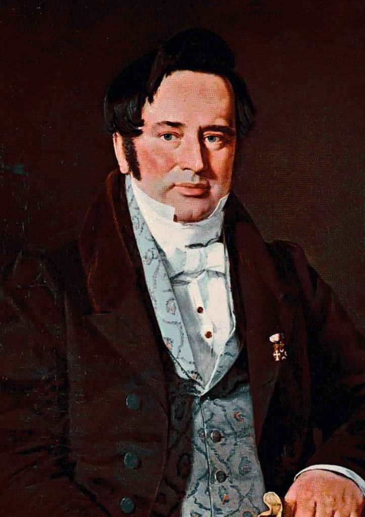 Portrait ofAdam Oehlenschläger by Christian Albrecht Jensen